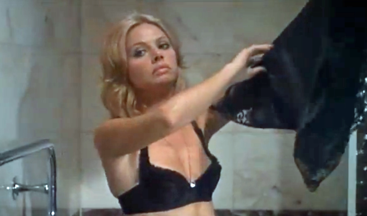 Britt Ekland in trailer for "Get Carter" (1971)